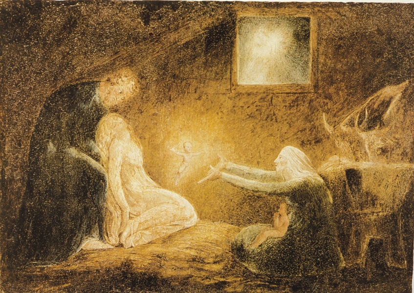 The Nativity, (c. 1790-1800), tempera on copper, 27.3 x 38.2 cm, in the collection of the Philadelphia Museum of Art.